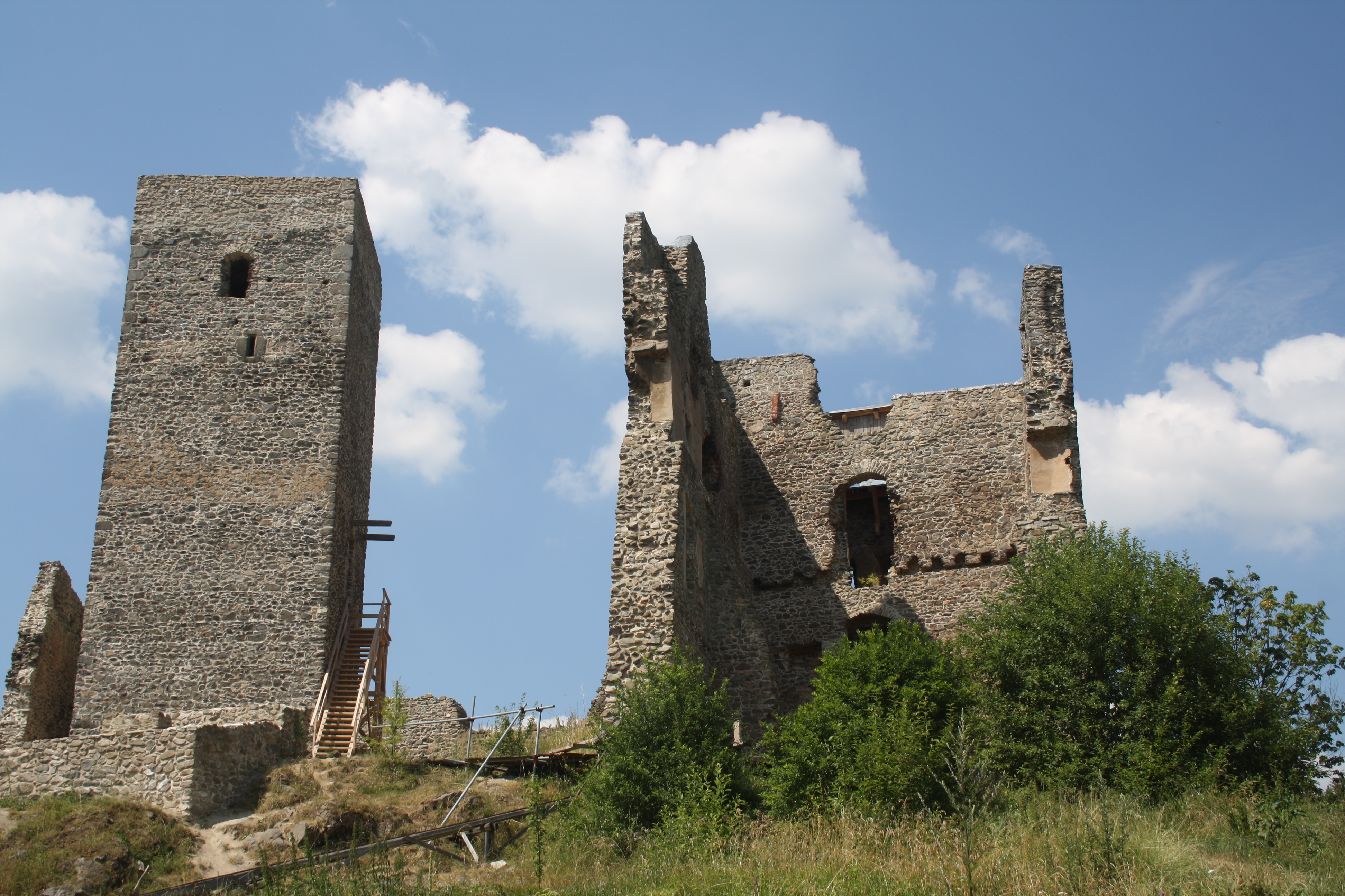 Rokštejn castle overview.